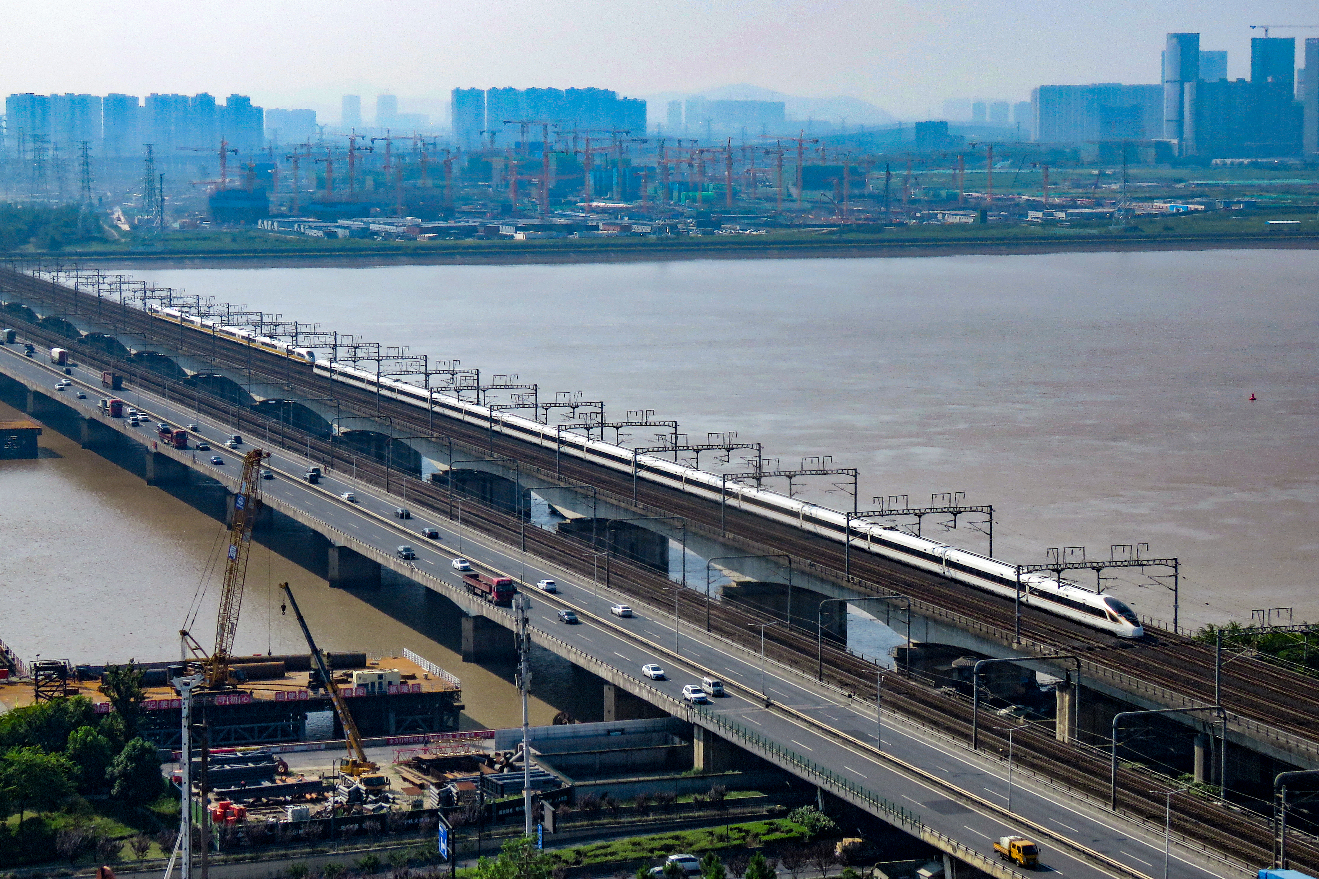 G7625 from Nanjing South to Wenzhou South, with CRH380BJ-A-0504 arriving from Huangshan North as DJ726.